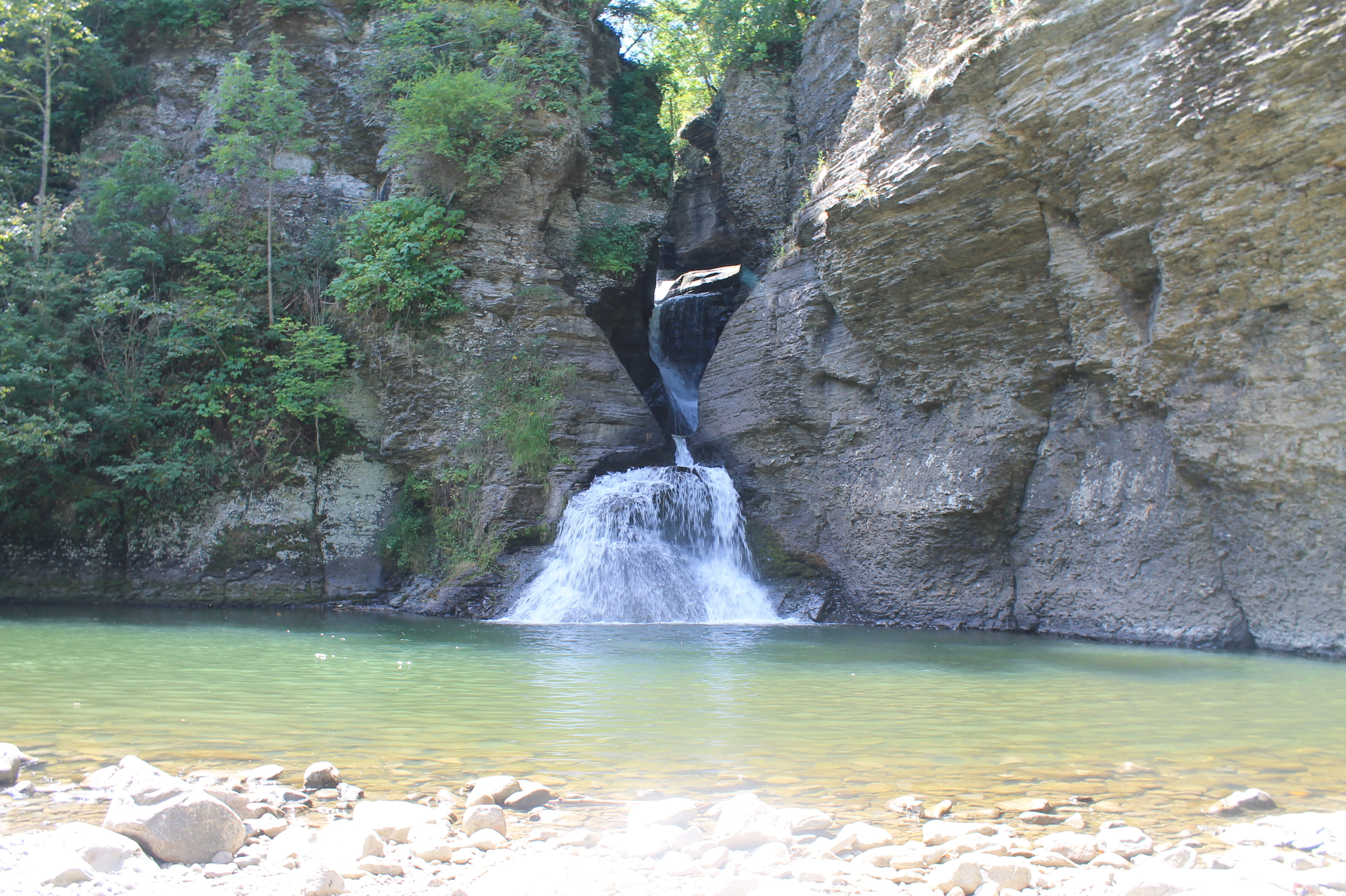 Mine Kill Falls at Mine Kill State Park, August 2013.